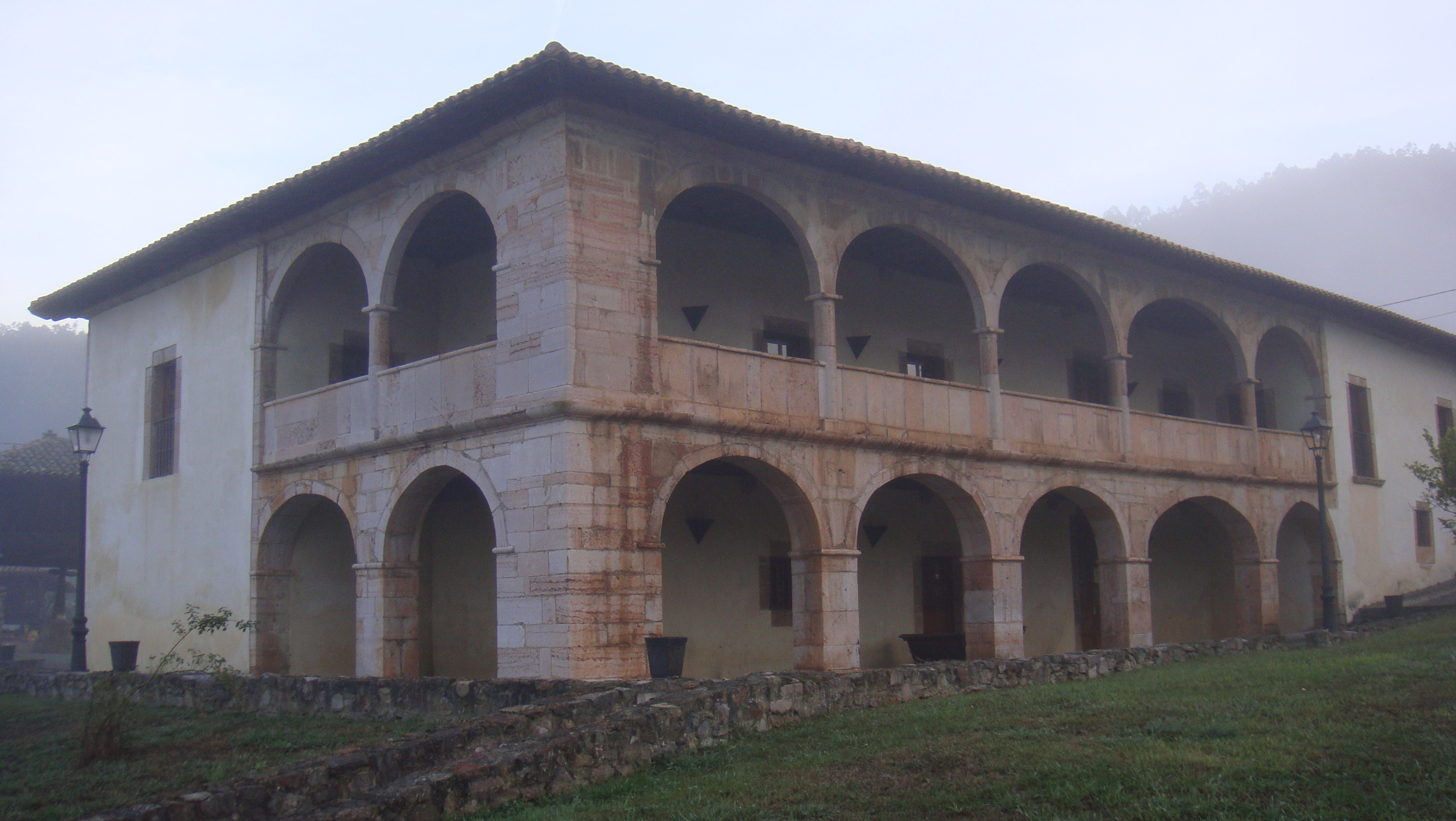 Cave of the Peña de Candamo. World Heritage. Paleolithic drawings.